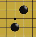 Keima, the horse jump. Made with Jago 4.7 Configuration of the colour of the goban: red=200, green=170, blue=70